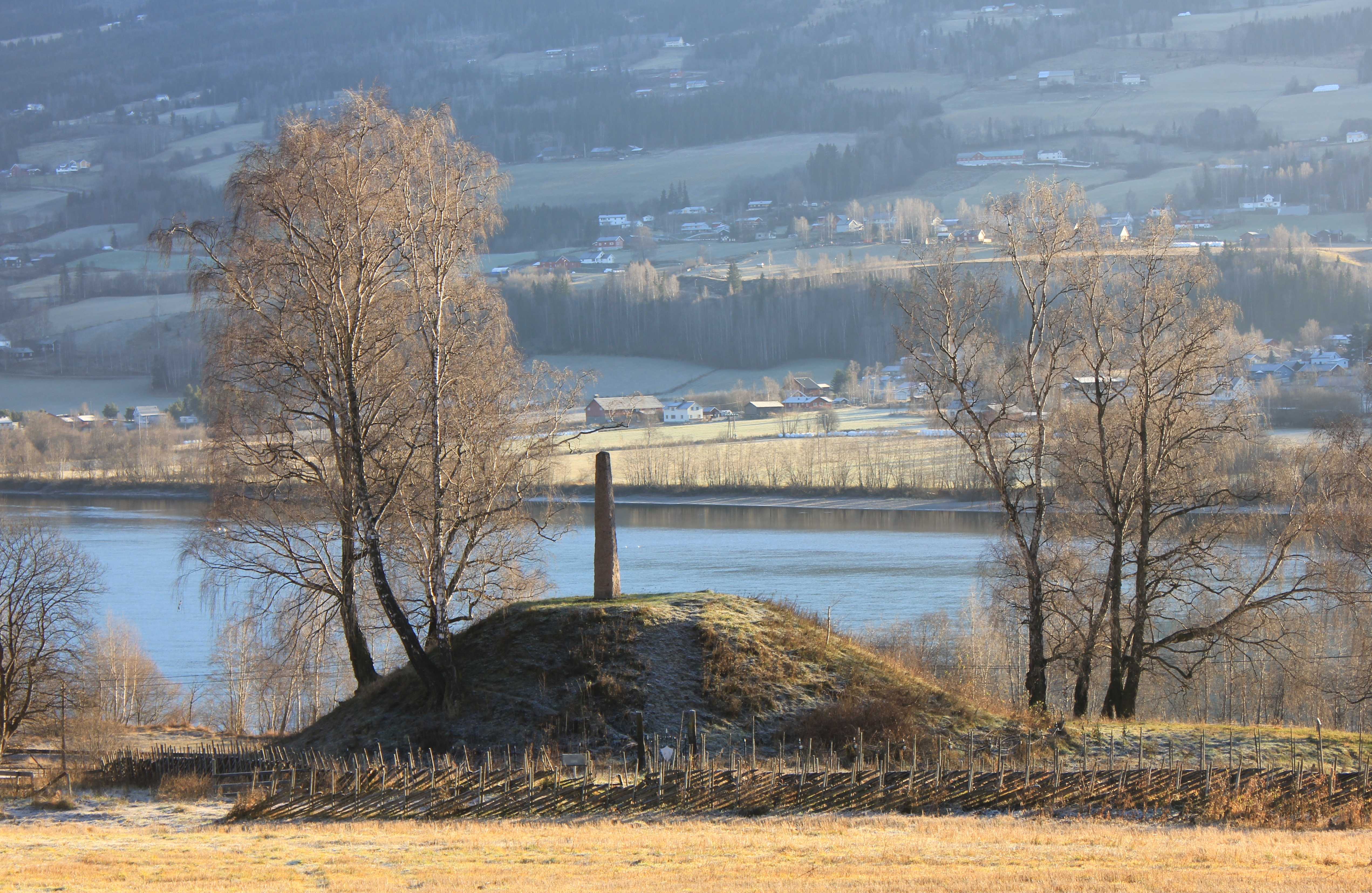 Buriald mound at Dale Gudbrands Gård in Gudbrandsdalen, Oppland, Norway